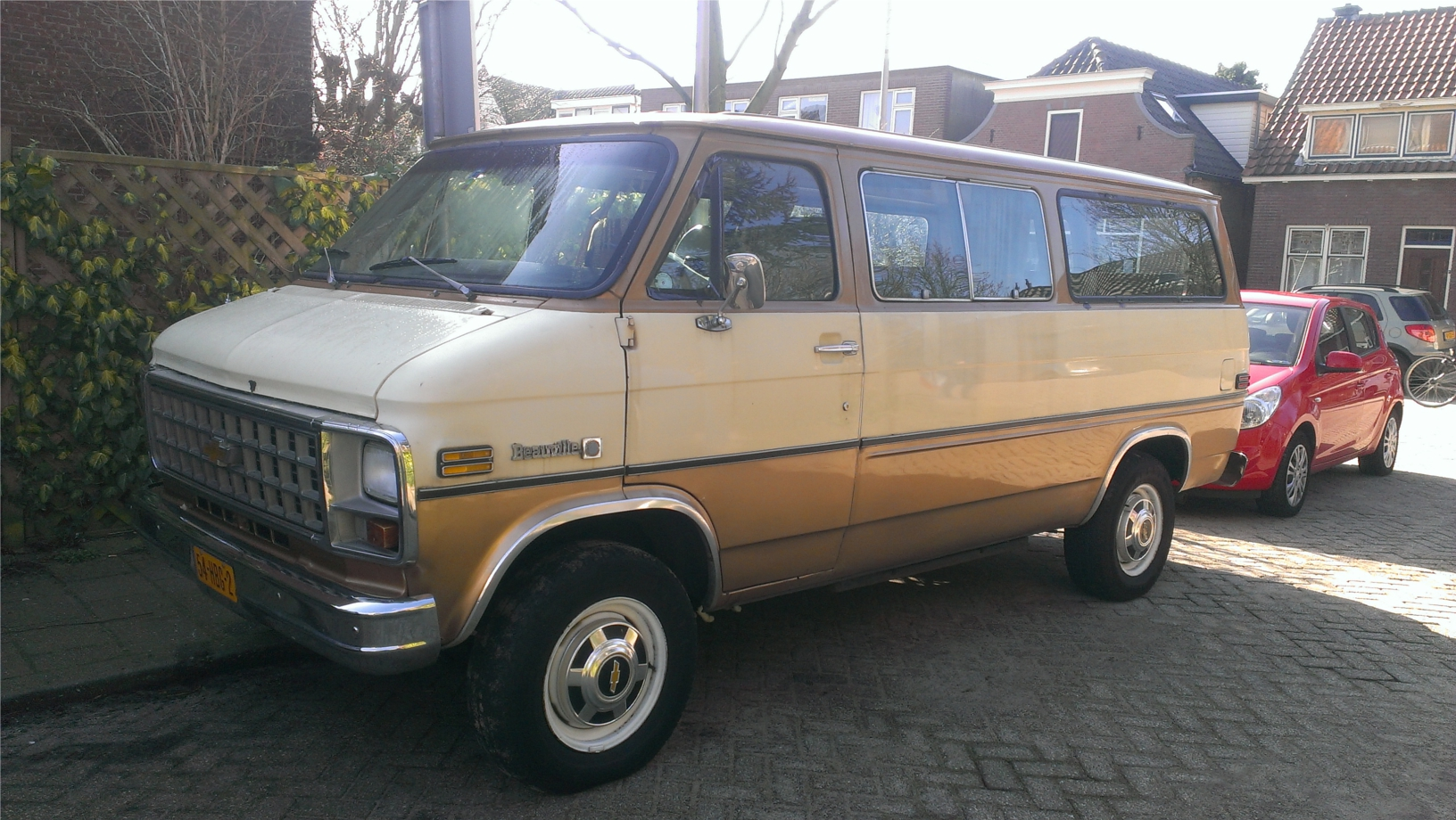 1981 Chevrolet Sportvan Beauville